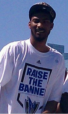 Corey Brewer at the champs parade